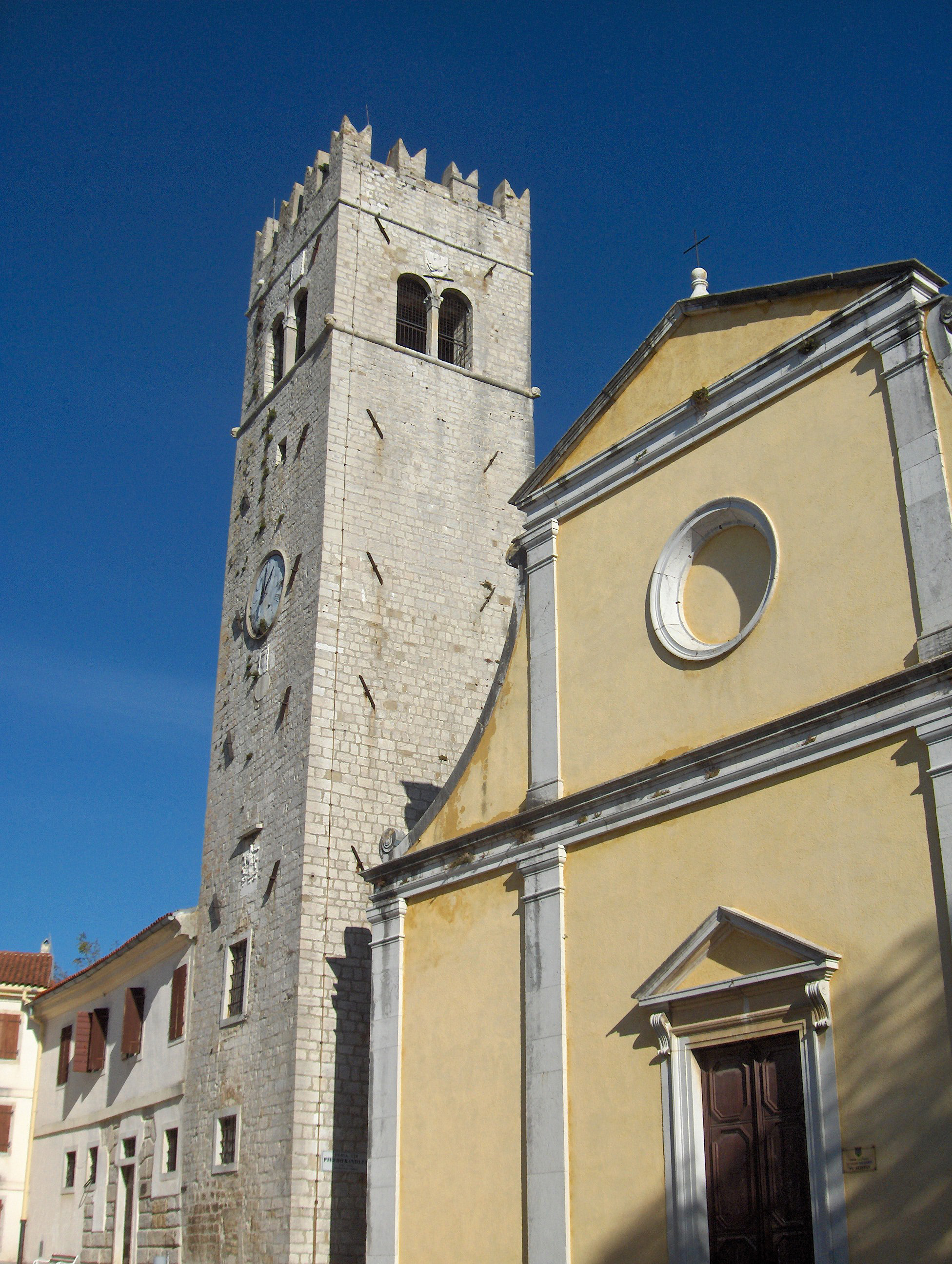 Church of St. Stephen, Motovun, Croatia